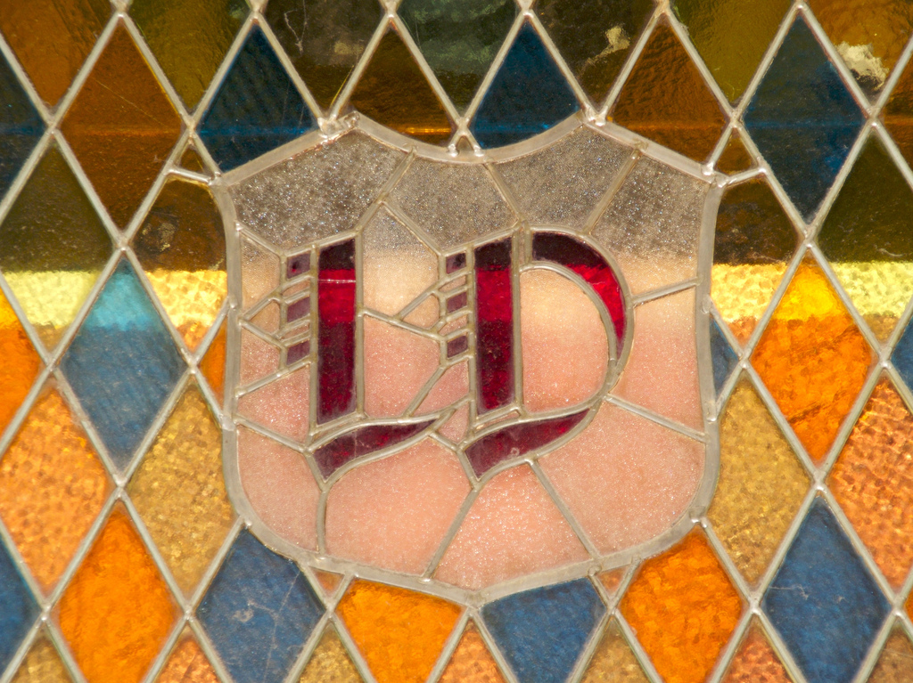 Interior Stained Glass, Lion d'Or